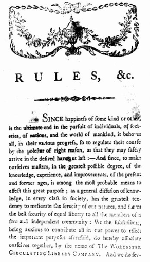 From: Rules and regulations of the Worcester Associate Library Company, Massachusetts